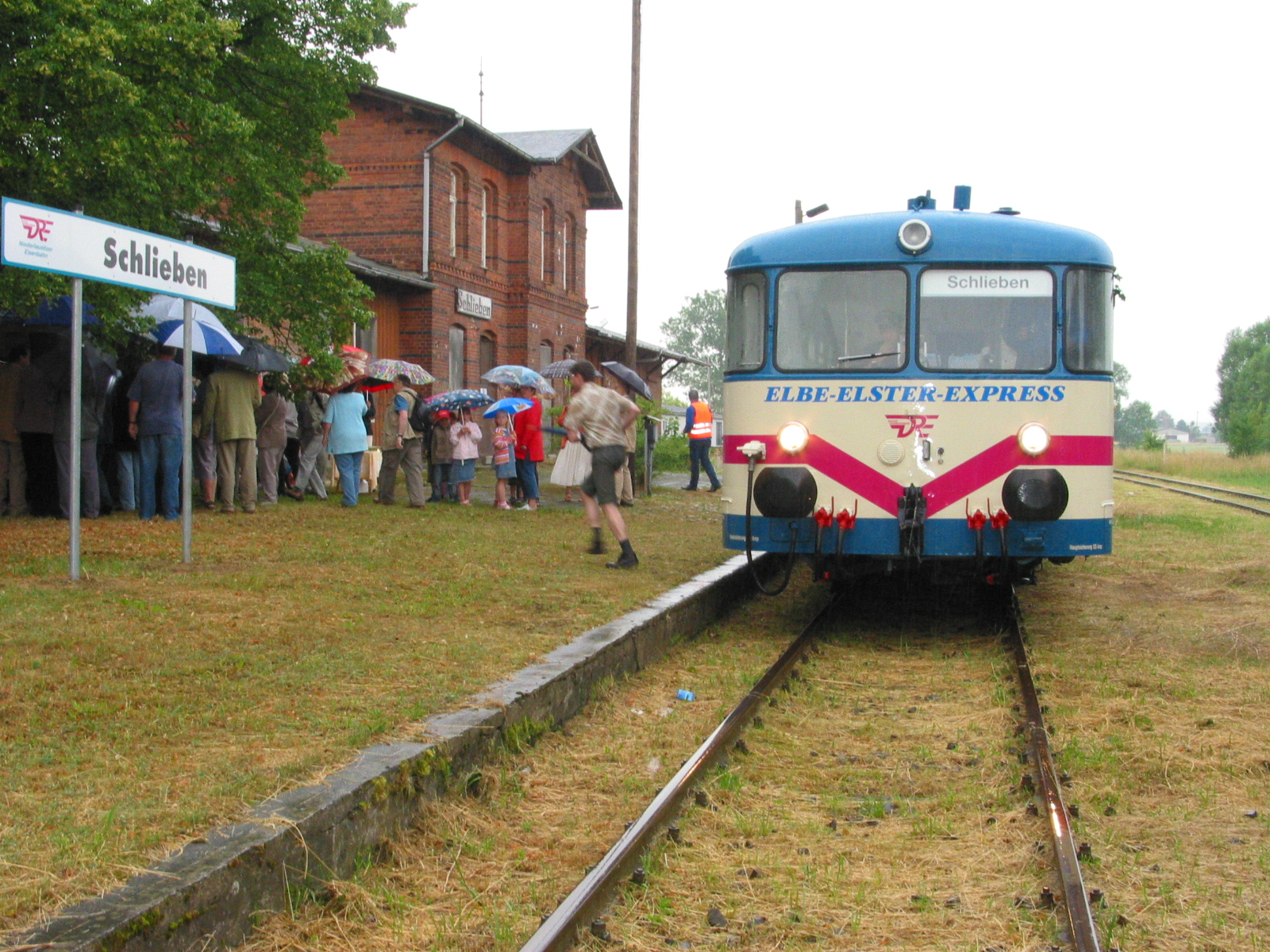 First tour of the Elbe-Elster-Express to the Moienmarket in the city of Schlieben